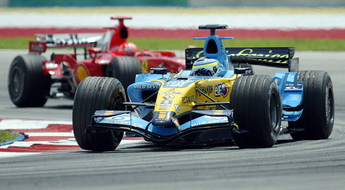 Giancarlo Fisichella (Renault) driving the R26 at the 2006 Malaysian Grand Prix